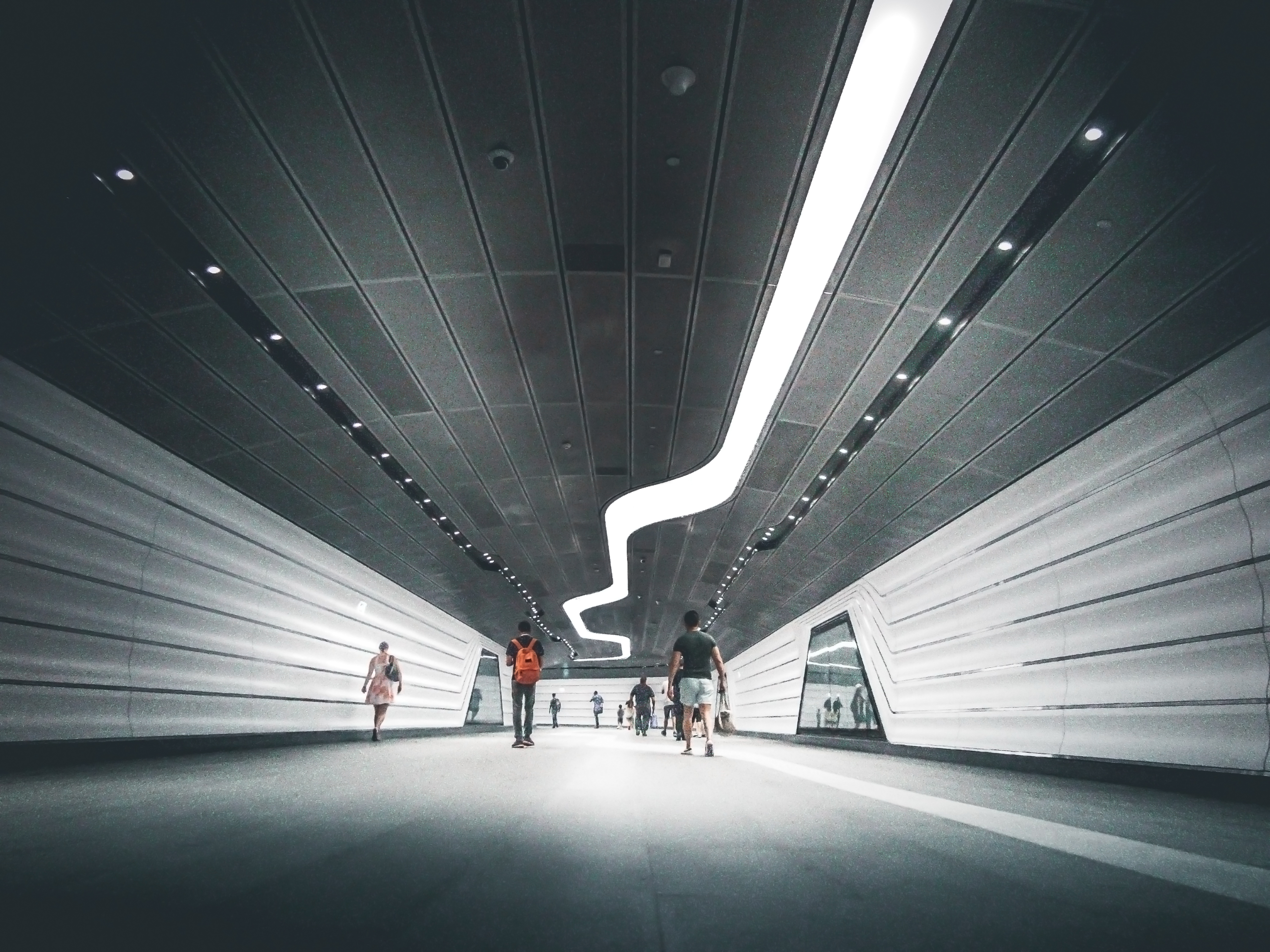 Wynyard Station, Sydney, Australia